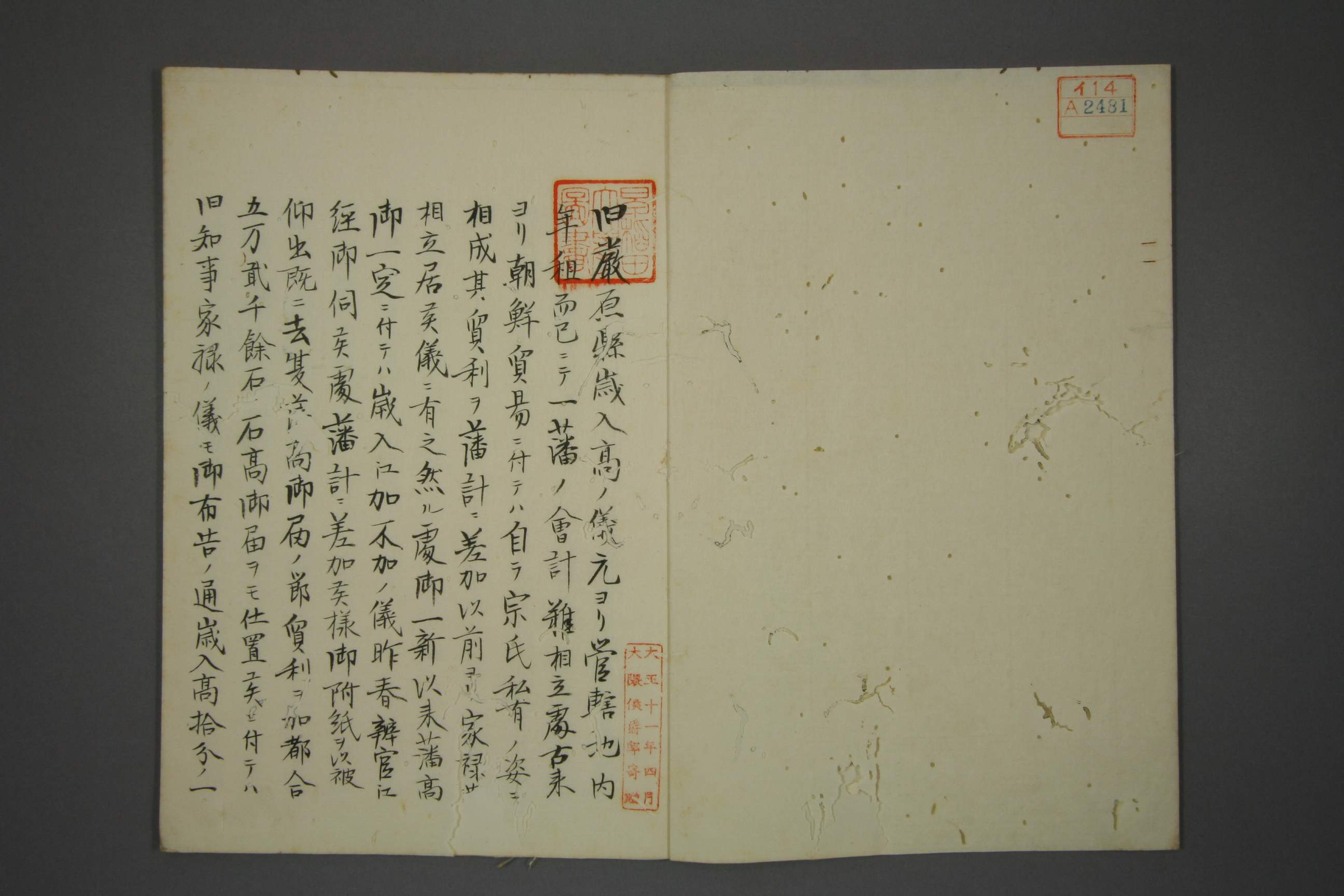 Petition for Annual revenue of Izuhara prefecture